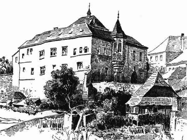 Palác Hrádek, Barborská 28/9, Kutná Hora